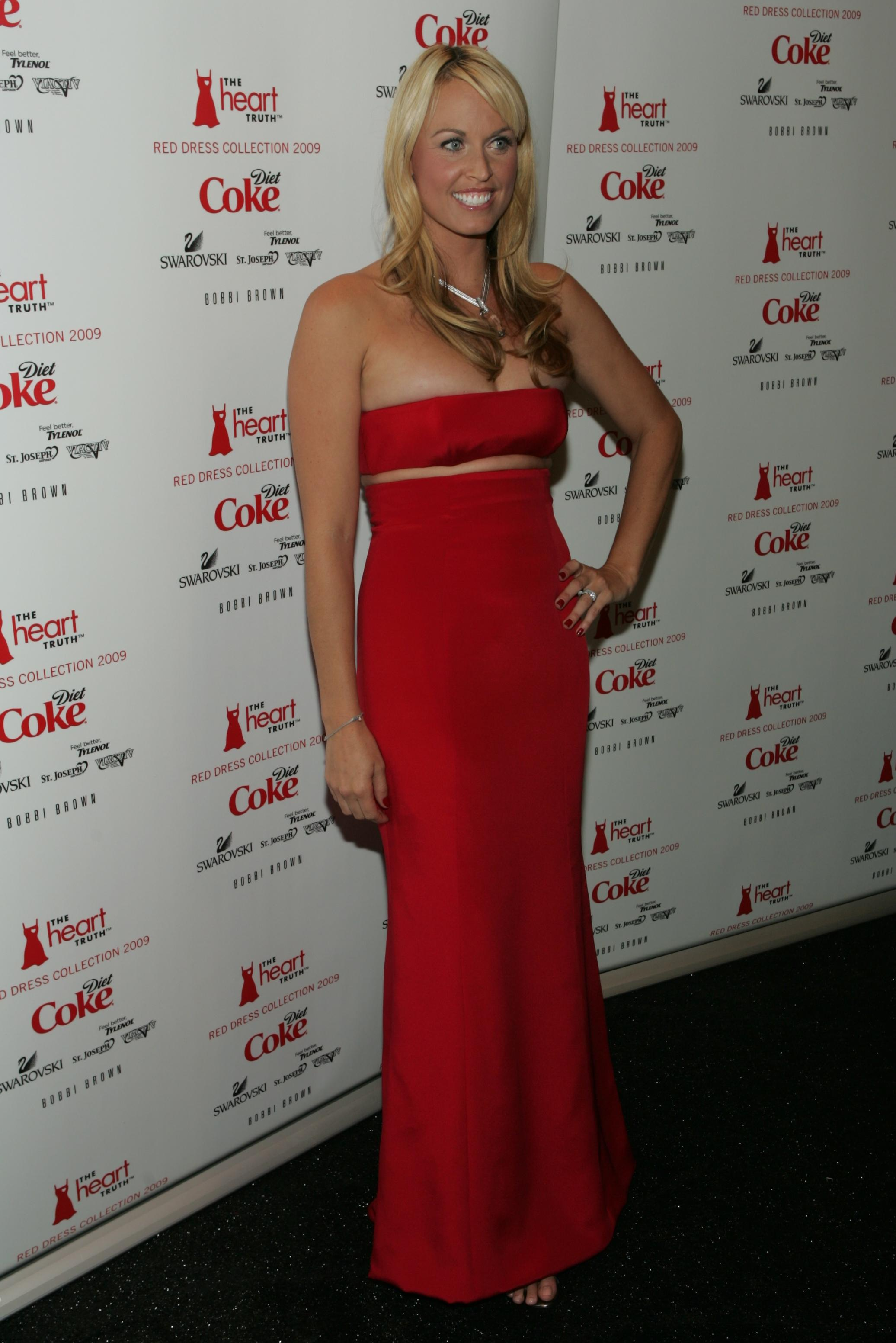 Backstage at The Heart Truth's Red Dress Collection Fashion Show during New York Fashion Week. February 13, 2009 at Bryant Park.